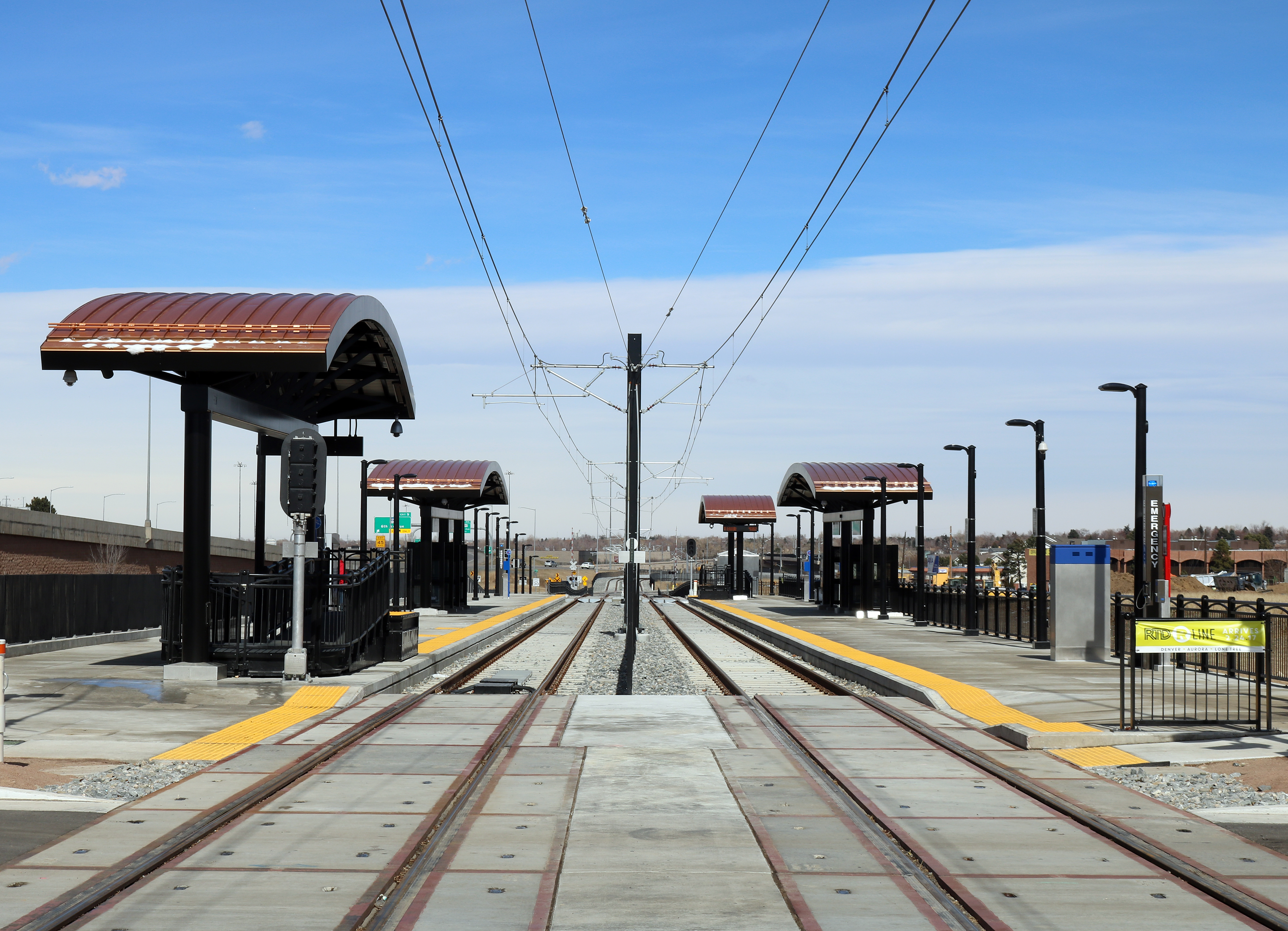 The Denver RTD 2nd Avenue & Abilene station, located at 14051 East Ellsworth Avenue in Aurora, Colorado. The station is on the RTD's R-Line.